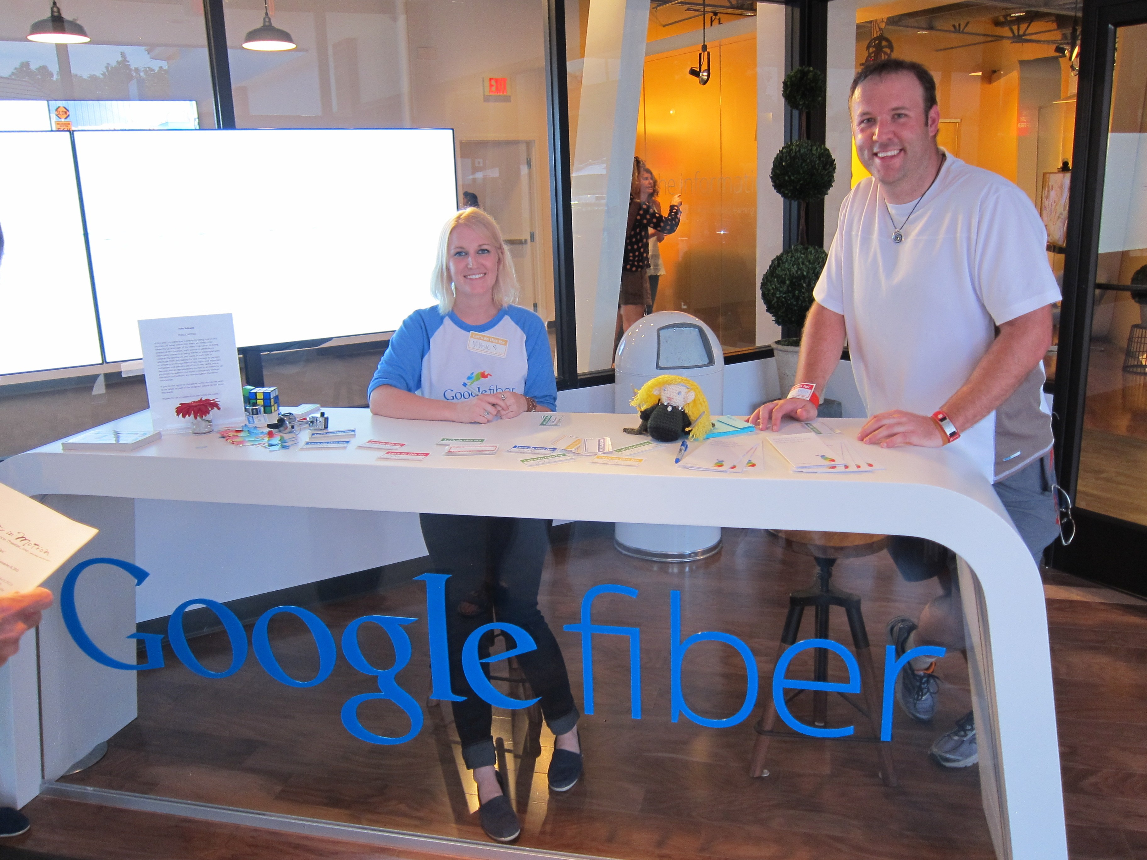 Mario at Google Fiber - Kansas City, MO